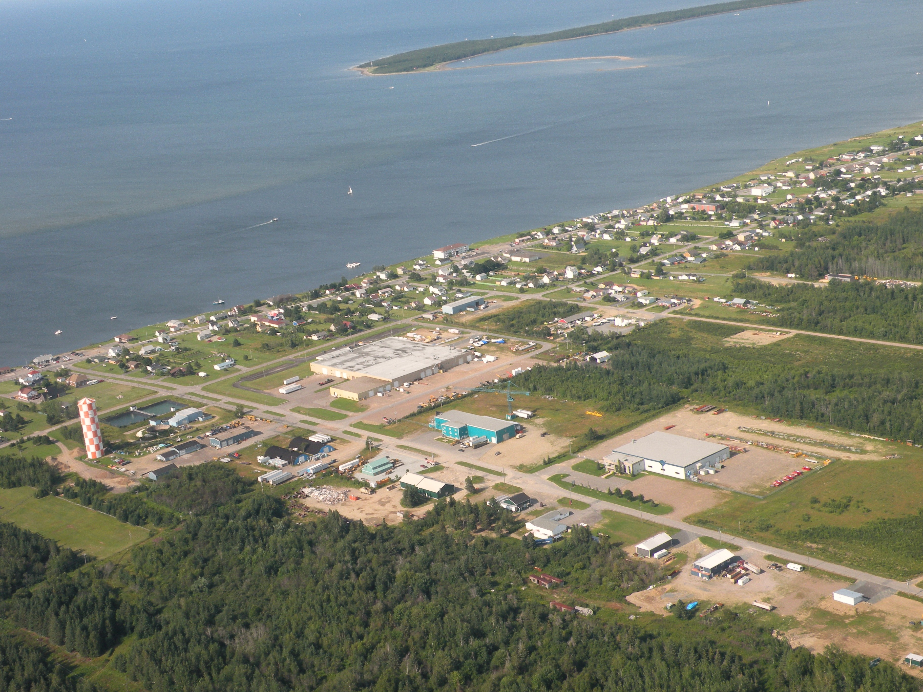 The industrial park in Caraquet, New Brunswick, as seen from the air.